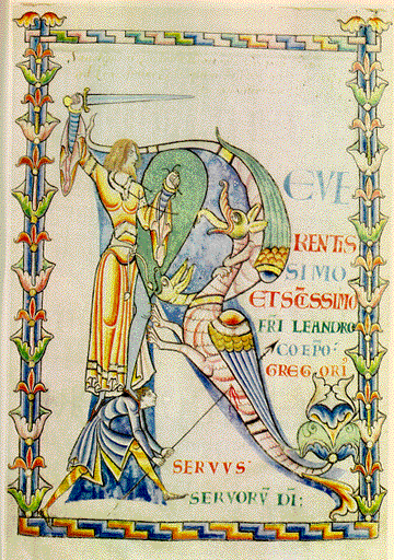 The Dijon, Bibl. Municipale, MS 2. From [1] Letter of Saint Gregory to Saint Leander.